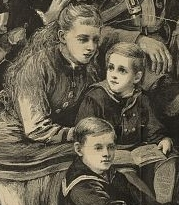 The identification key for the original image this one was cropped from is available at Image:Queen Victoria & Royal Family (identification key).jpg. 4.Princess Victoria Elizabeth Augusta Charlotte of Prussia. Princess Charlotte of Prussia 5.Prince Ernest Louis Charles Albert William of Hesse. Ernest Louis, Grand Duke of Hesse 6.Prince Albert John Charles Frederic[k] Alfred George of Schleswig-Holstein. Albert, Duke of Schleswig-Holstein